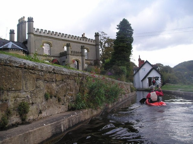 A kayaker paddling along the canal.